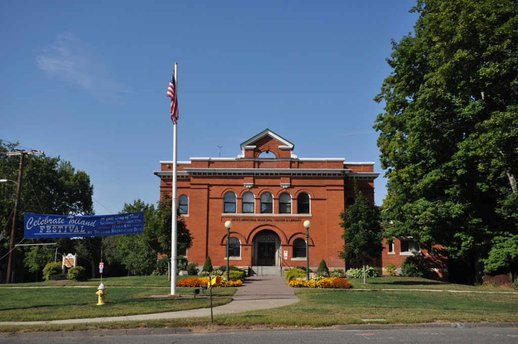 Tolland Green Historic District, Tolland, Connecticut. Town hall.